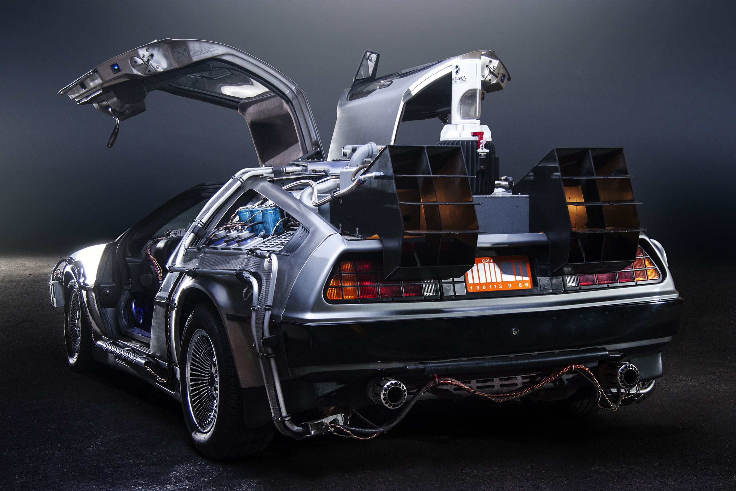 Back to the Future DeLorean Time Machine